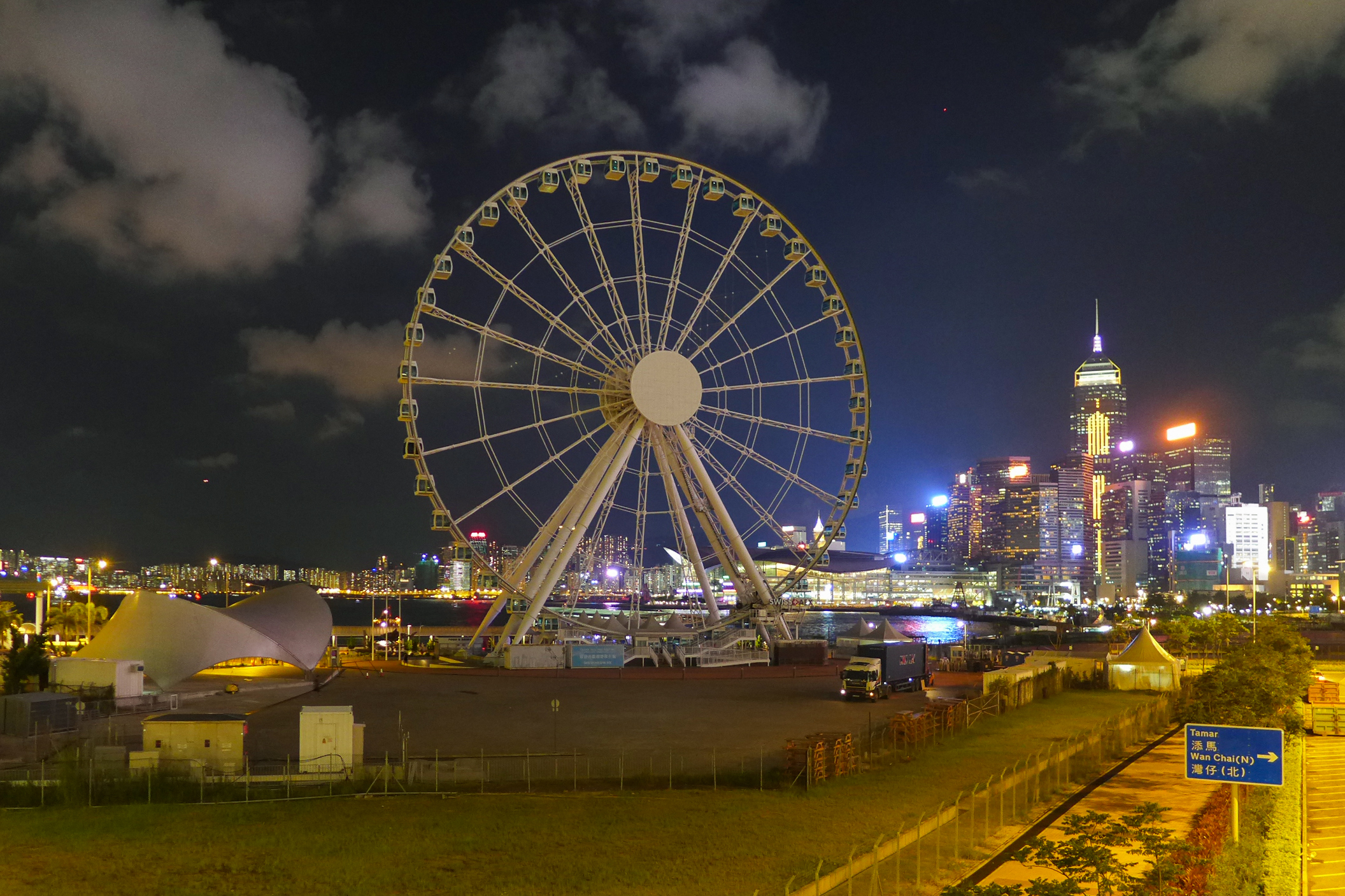 The Hong Kong Observation Wheel Closure